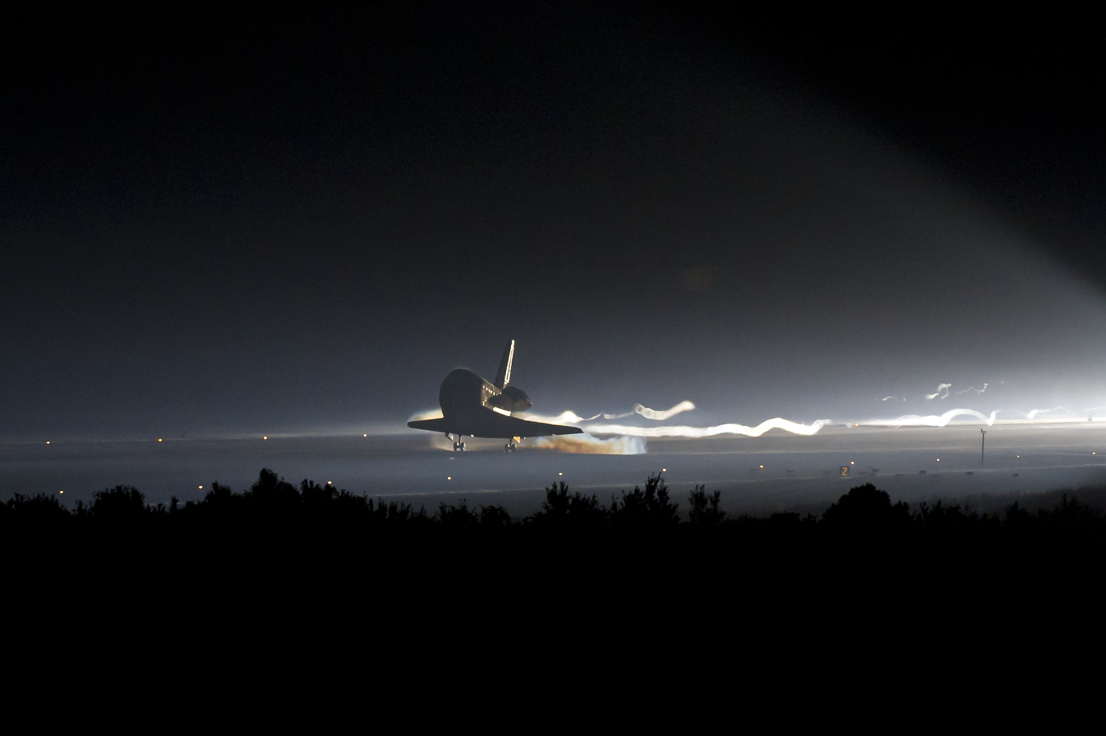 Space shuttle Atlantis lands for the final time at NASA’s Kennedy Space Center in Florida.